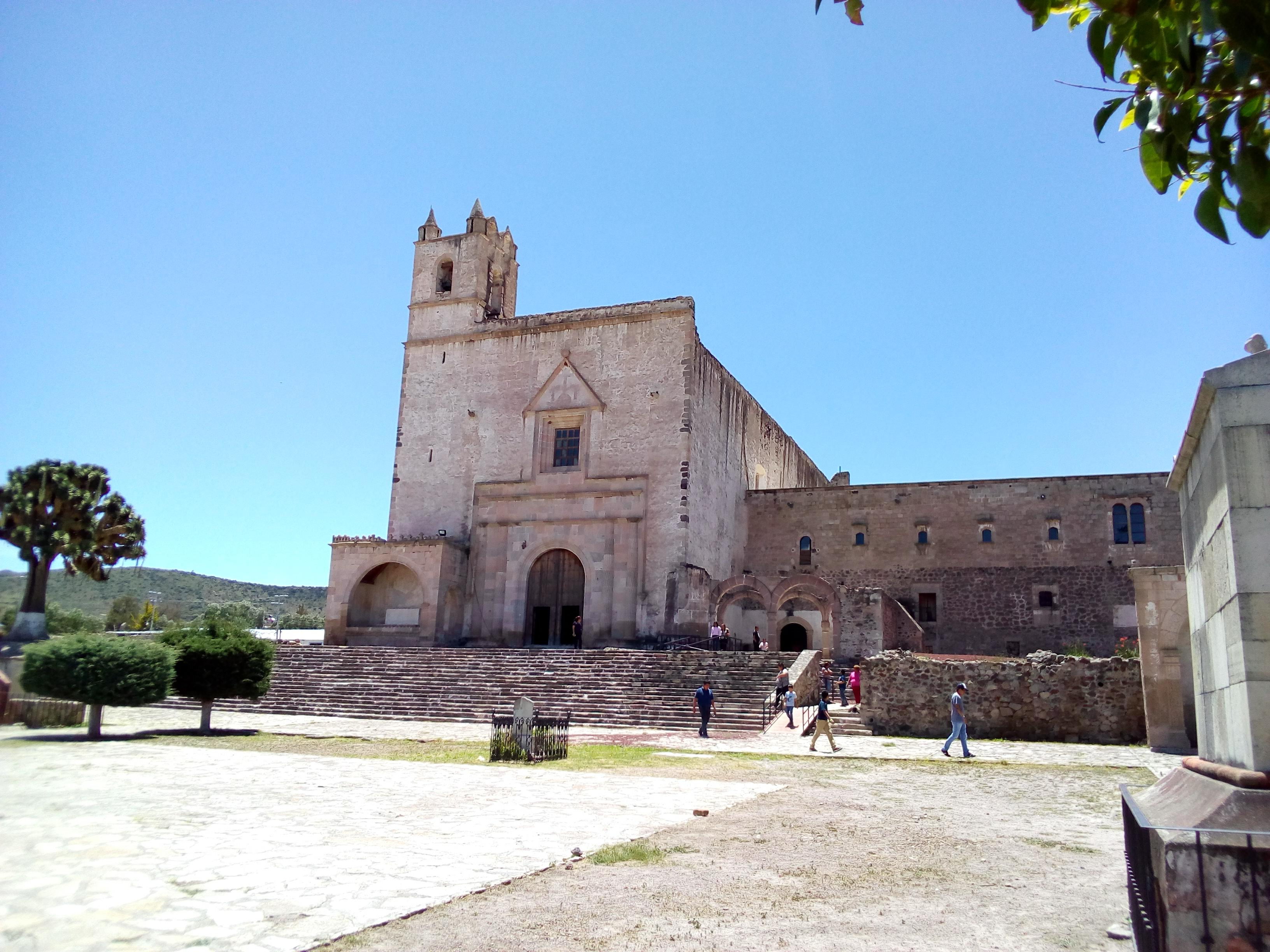 Former Augustinian Convent of Saint Andrew, 16th Century, Epazoyucan, MEXICO